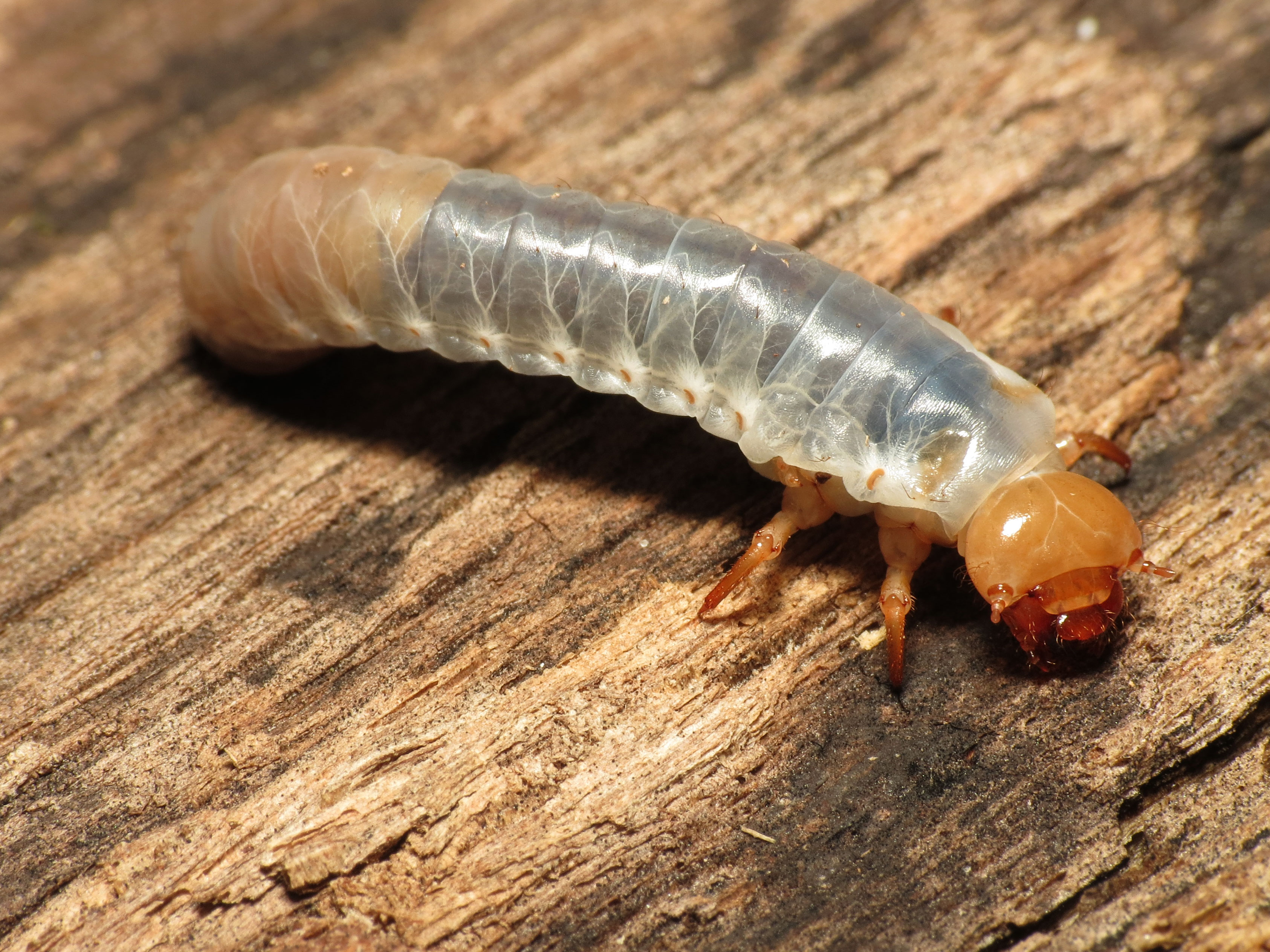 Odontotaenius disjunctus, on a log, under bark. Rock Creek Park, Washington, DC, USA. Note that these larvae only have four functional legs. The third pair of legs is reduced